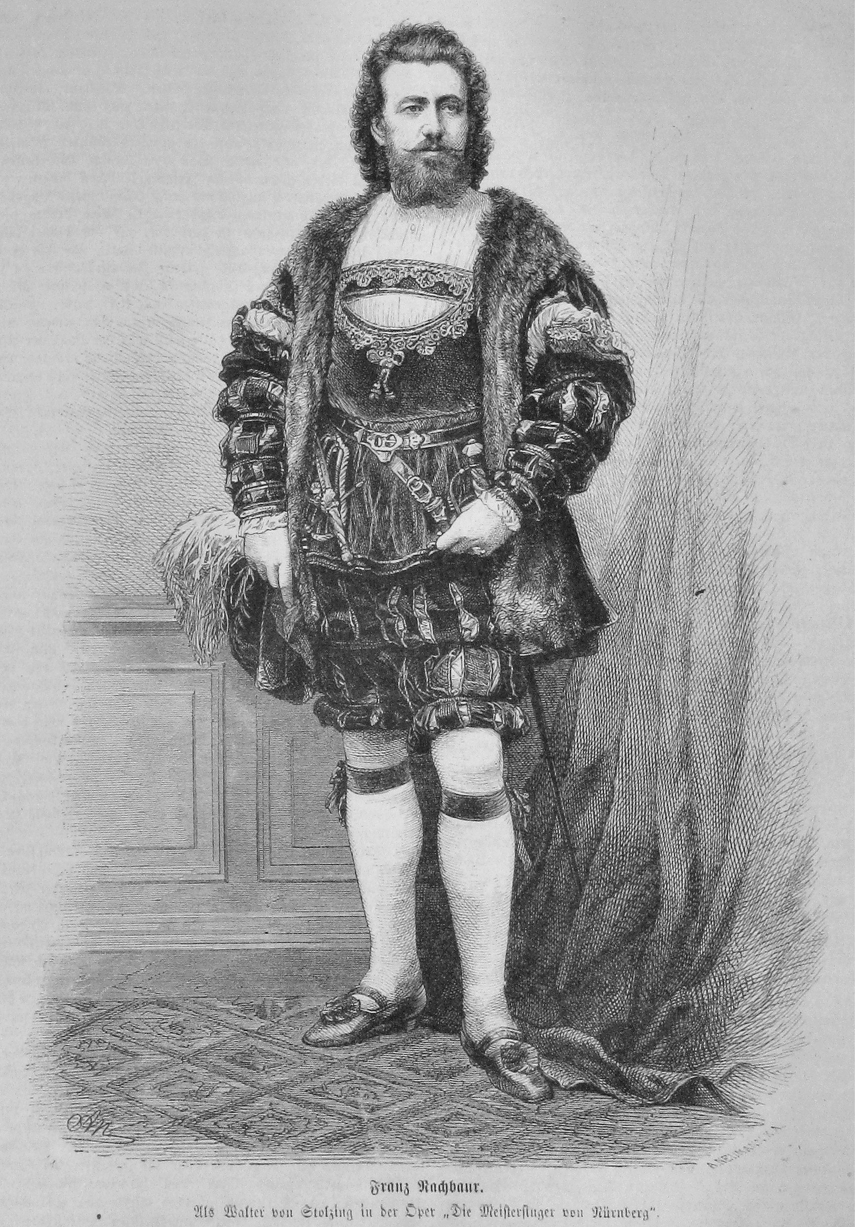 caption: "Franz Nachbaur. Als Walter von Stolzing in der Oper „Die Meistersinger von Nürnberg“."